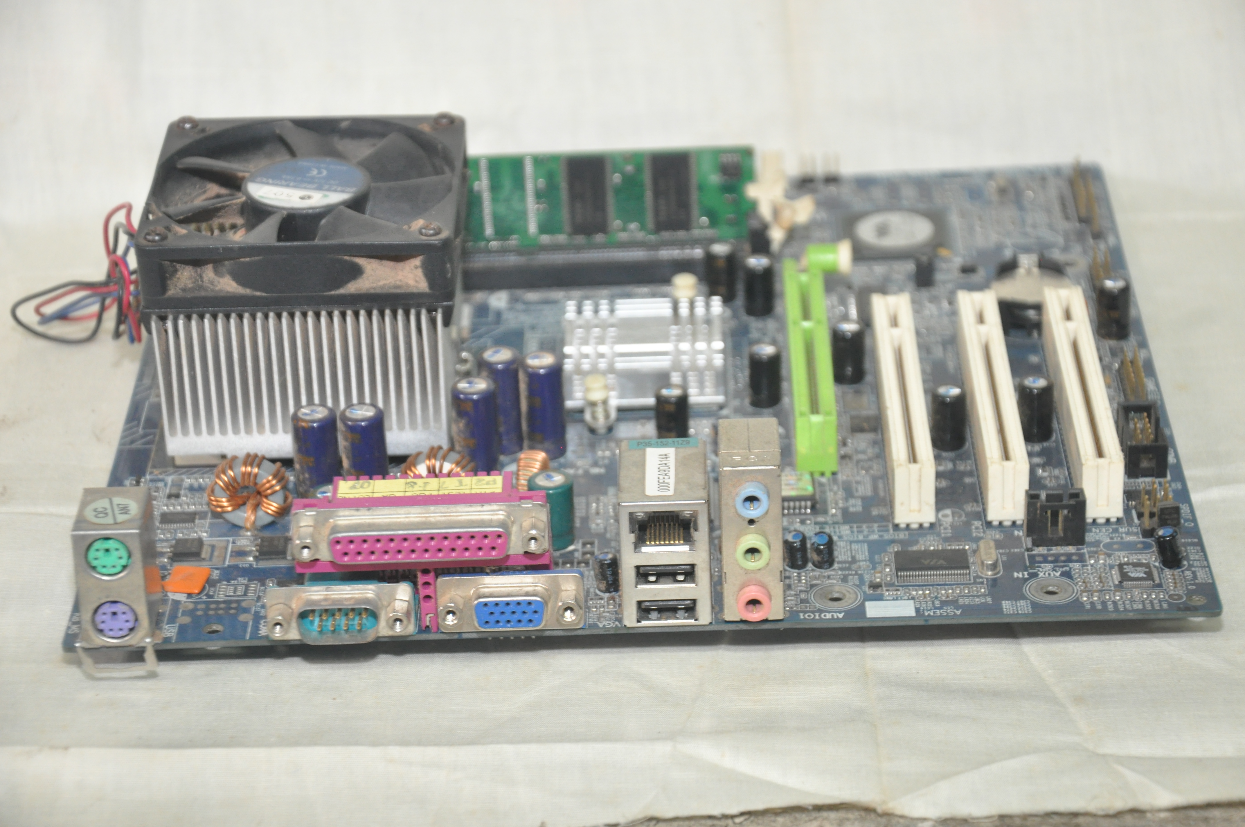 Mother board of a PC showing ports